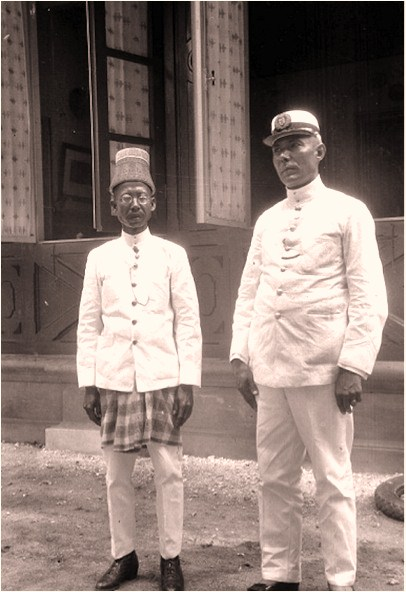 Stammeshaus met Polim